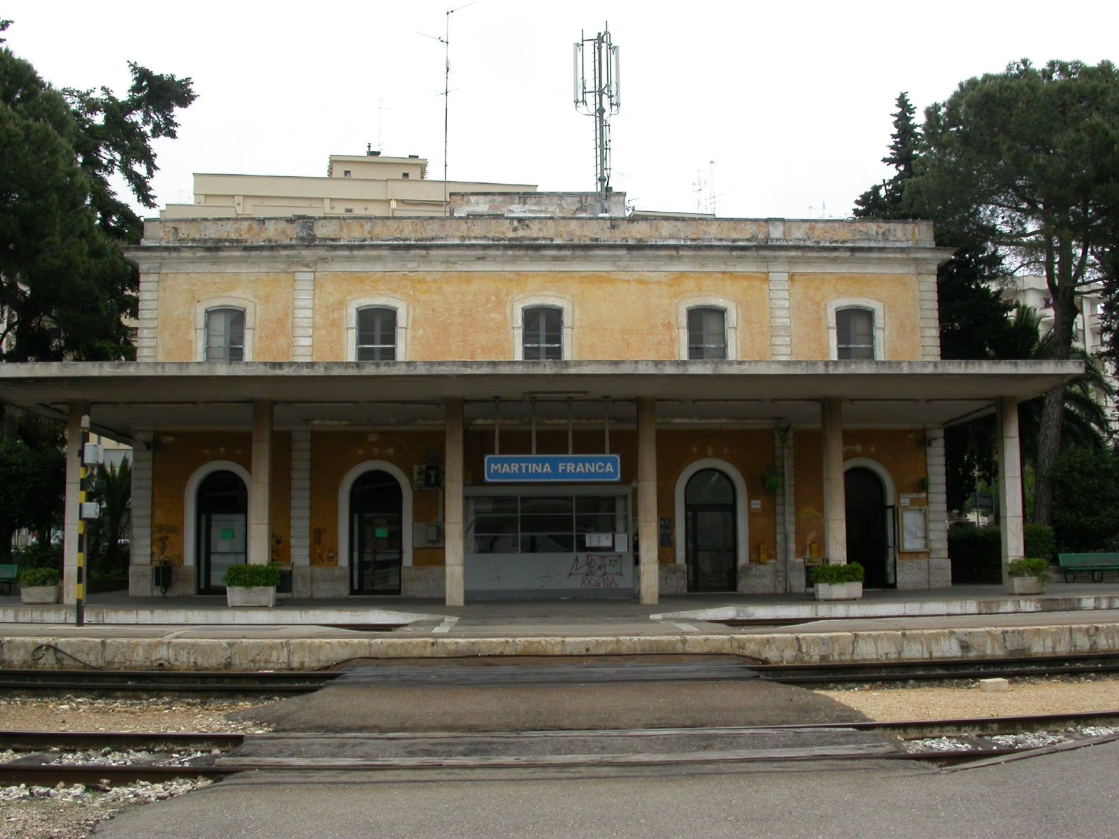 The train station in the town of Martina Franca, province of Taranto, Apulia (Puglia), Italy.